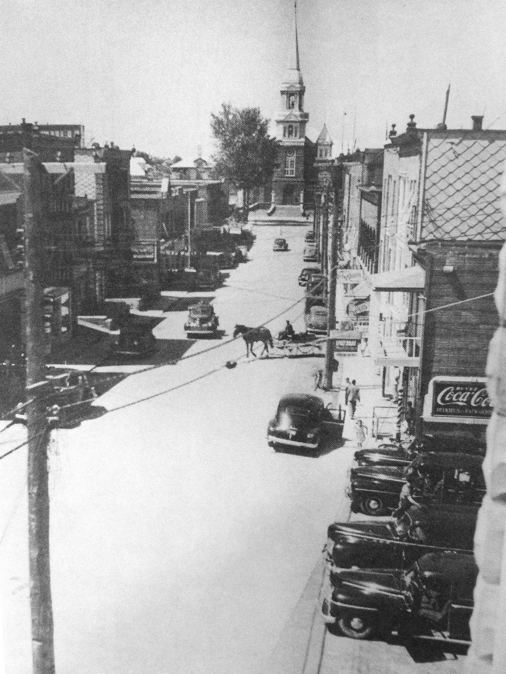 Sacré-Coeur Street, Alma PQ, between 1920 and 1933